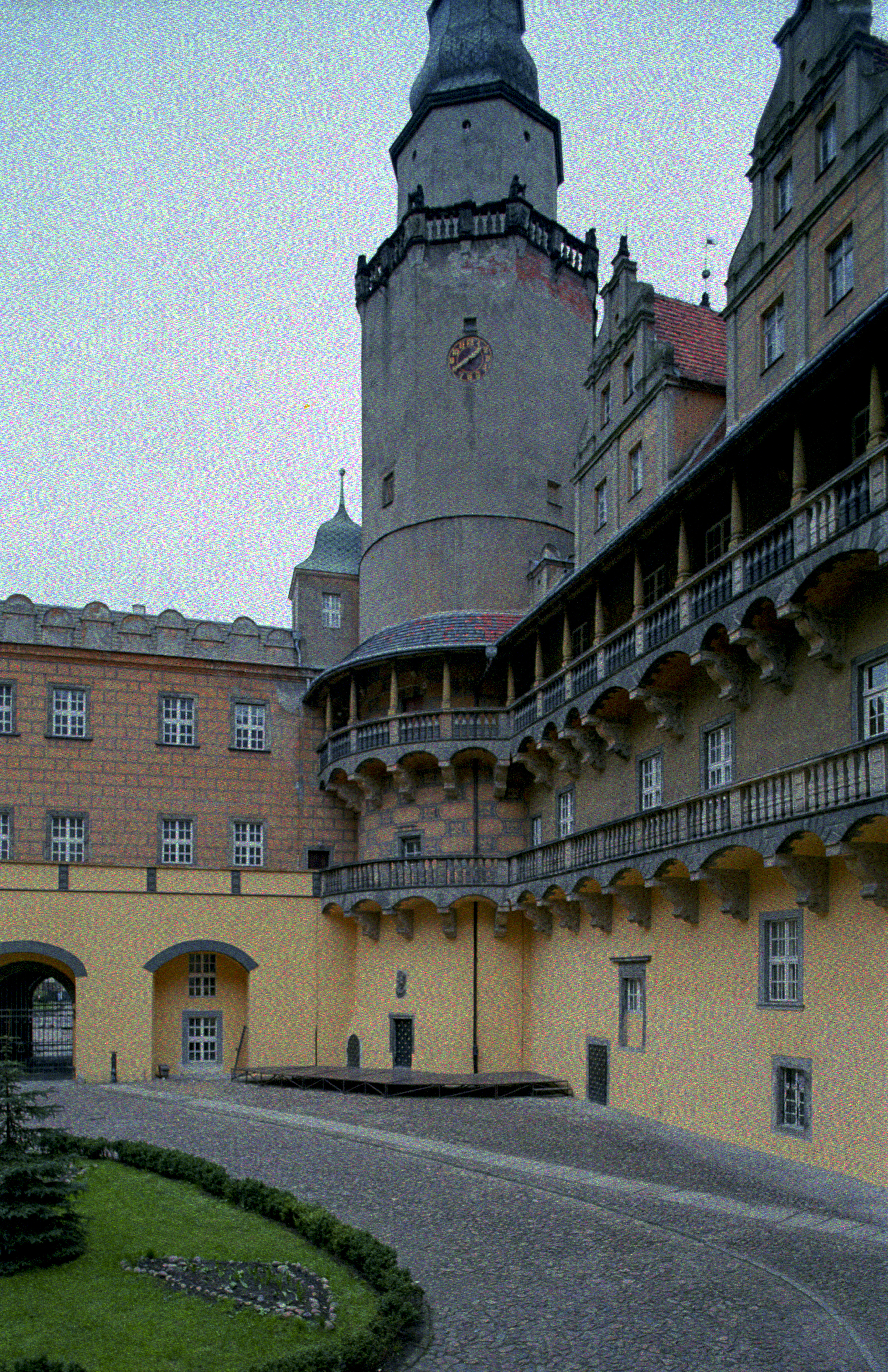 Poland, Olesnica Castle